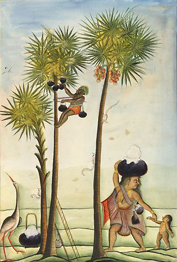 A Toddy tapper collecting sap from a palm tree, with a woman and child at the base of the tree. Opaque watercolor on paper, painted in Madras in approximately 1785. From the Arts of India 1550-1900 collection of the Victoria and Albert Museum, London.